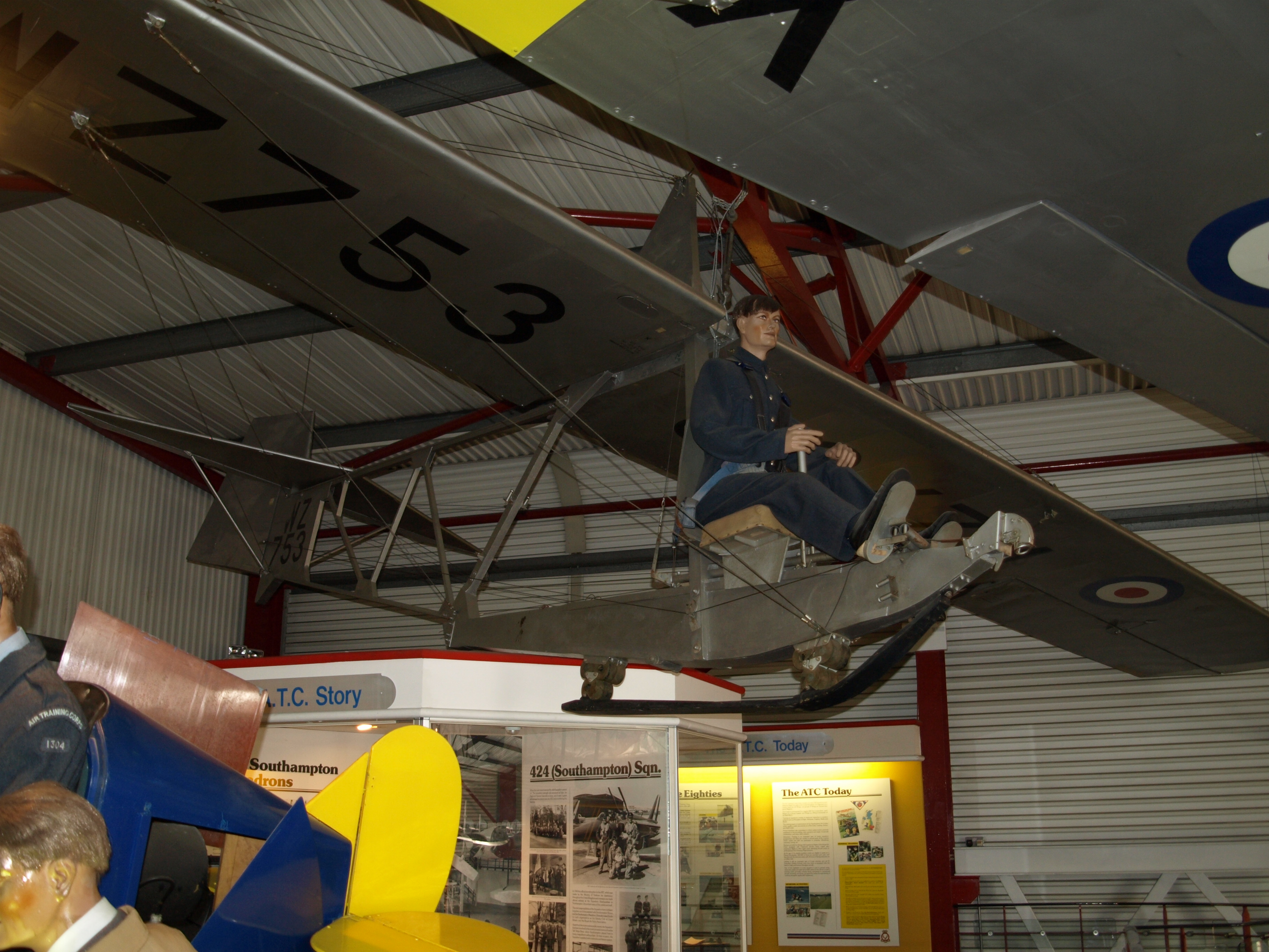 Slingsby T.38 'Grasshopper' primary training glider on display at the Solent Sky museum.